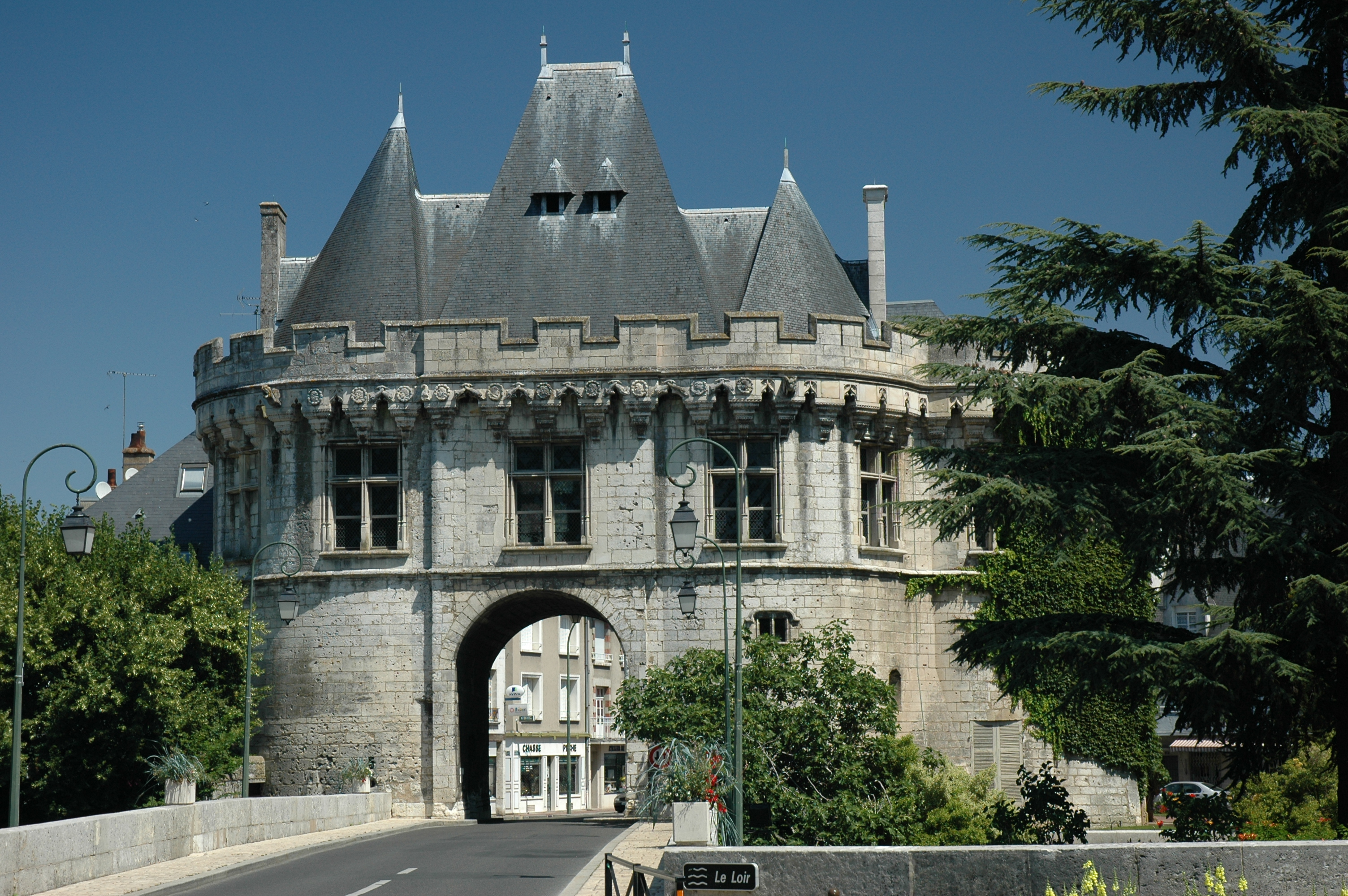 Vendôme, Loir-et-Cher, France